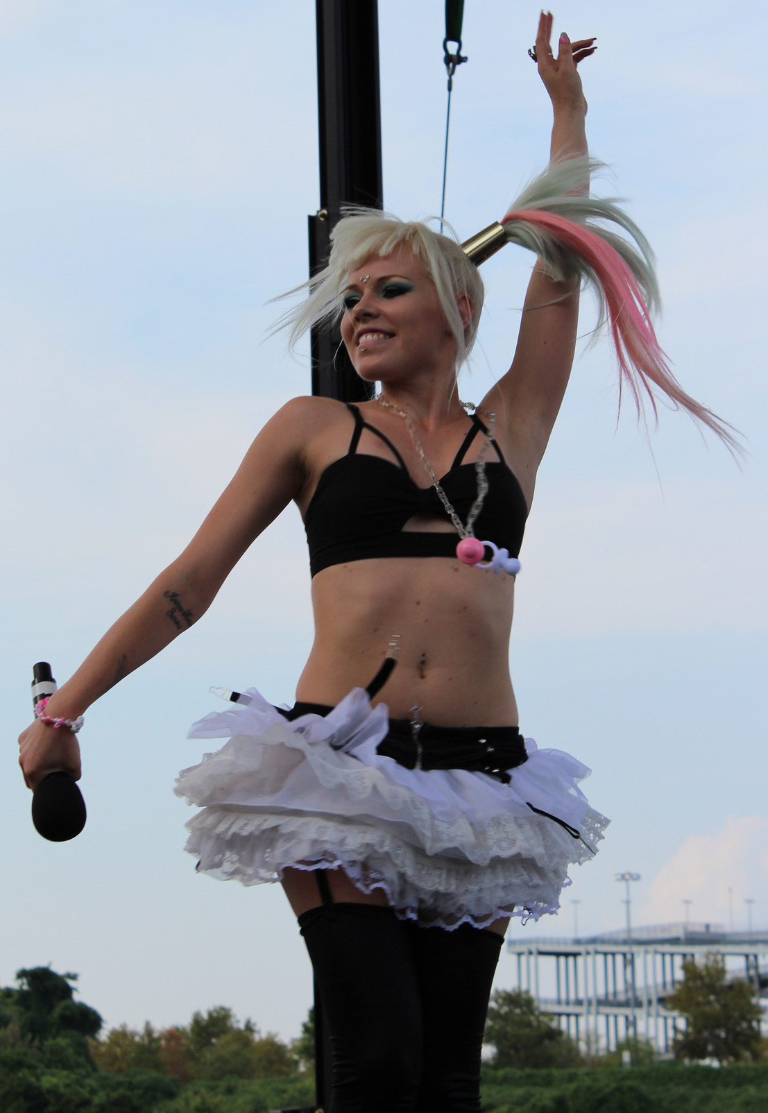 Kerli performs at the 2012 Nashville Pride Festival on June 16, 2012.